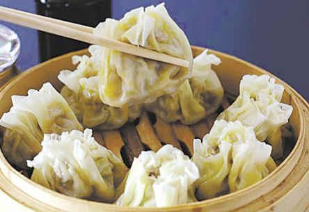 shao mai